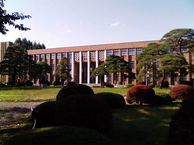 the head office building of Tohoku University at Katahira campus